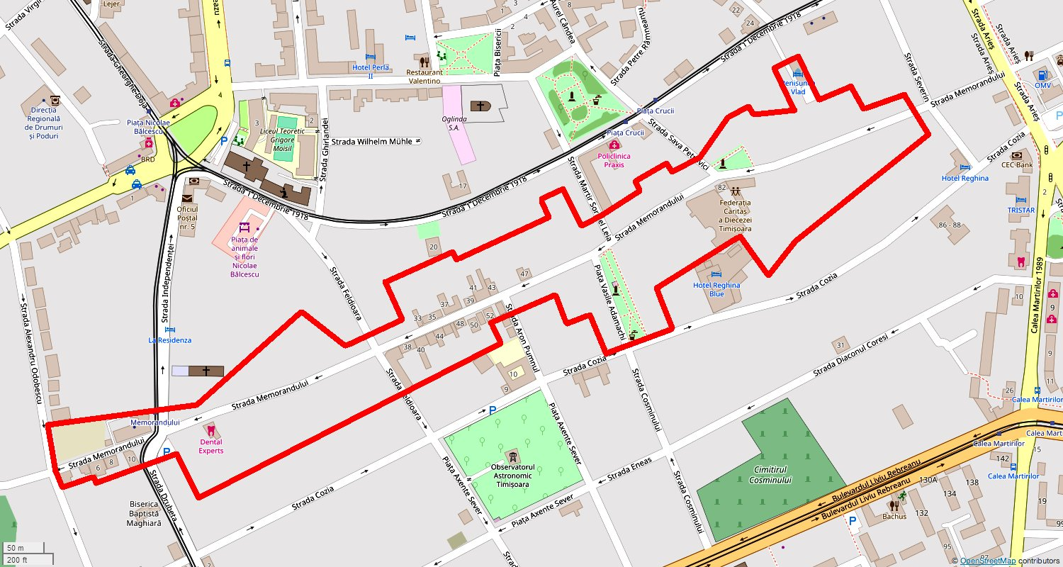 Map of heritage site "Ansamblul urban I", Timișoara, Romania